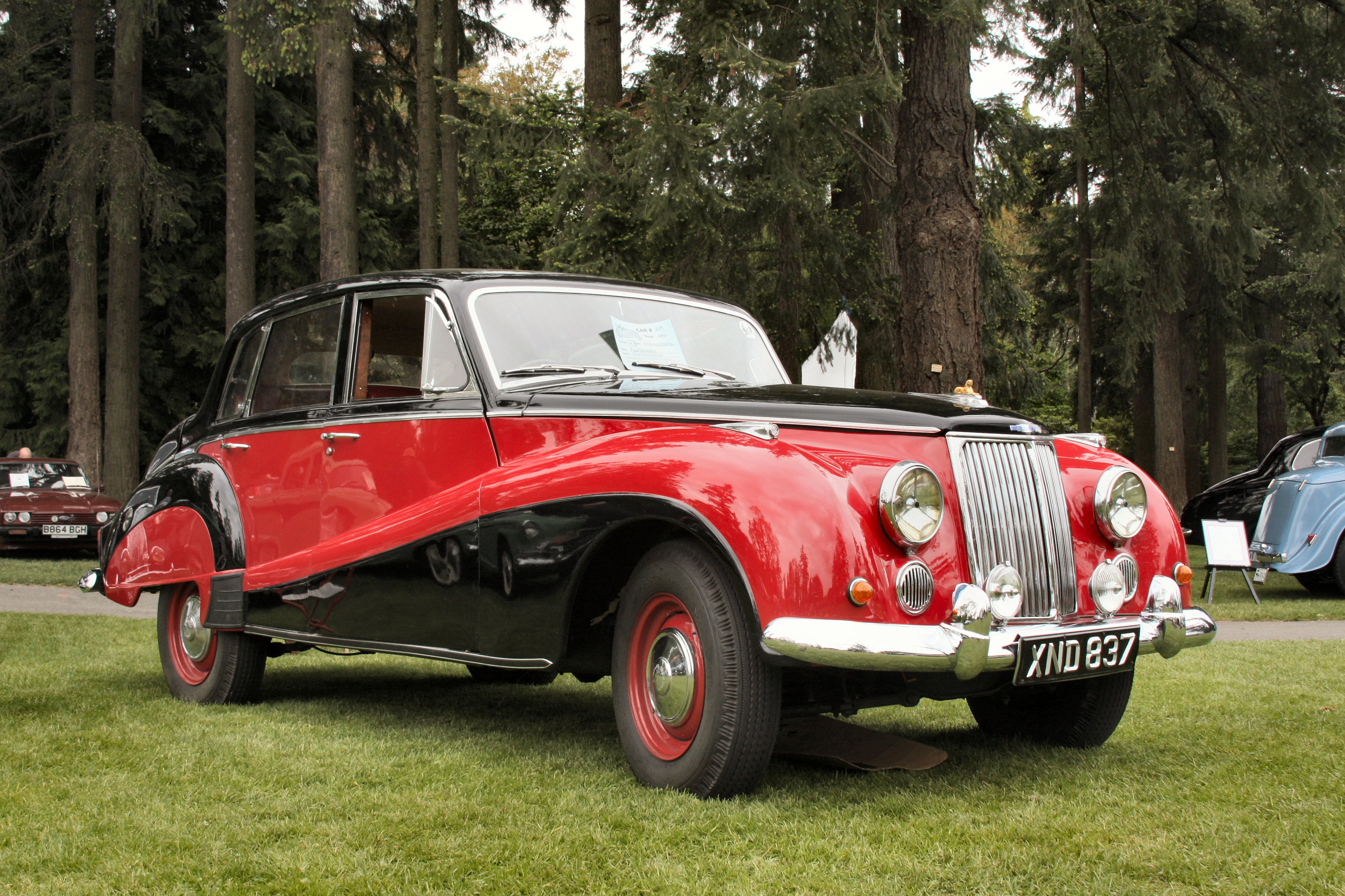 1959 Armstrong Siddleley Sapphire 346 with a 3.4L six cylinder engine.